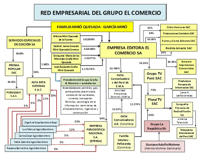 These are the companies belonging to the Grupo El Comercio from Peru.